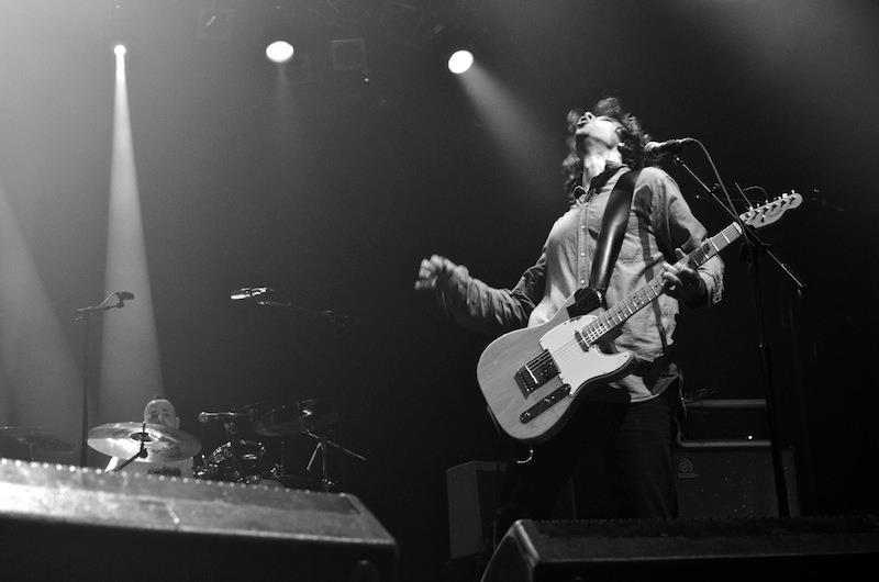 Stef Bernardi and Leo Weston from Whales In Cubicles playing at Club NME at Koko in Camden in October 2011